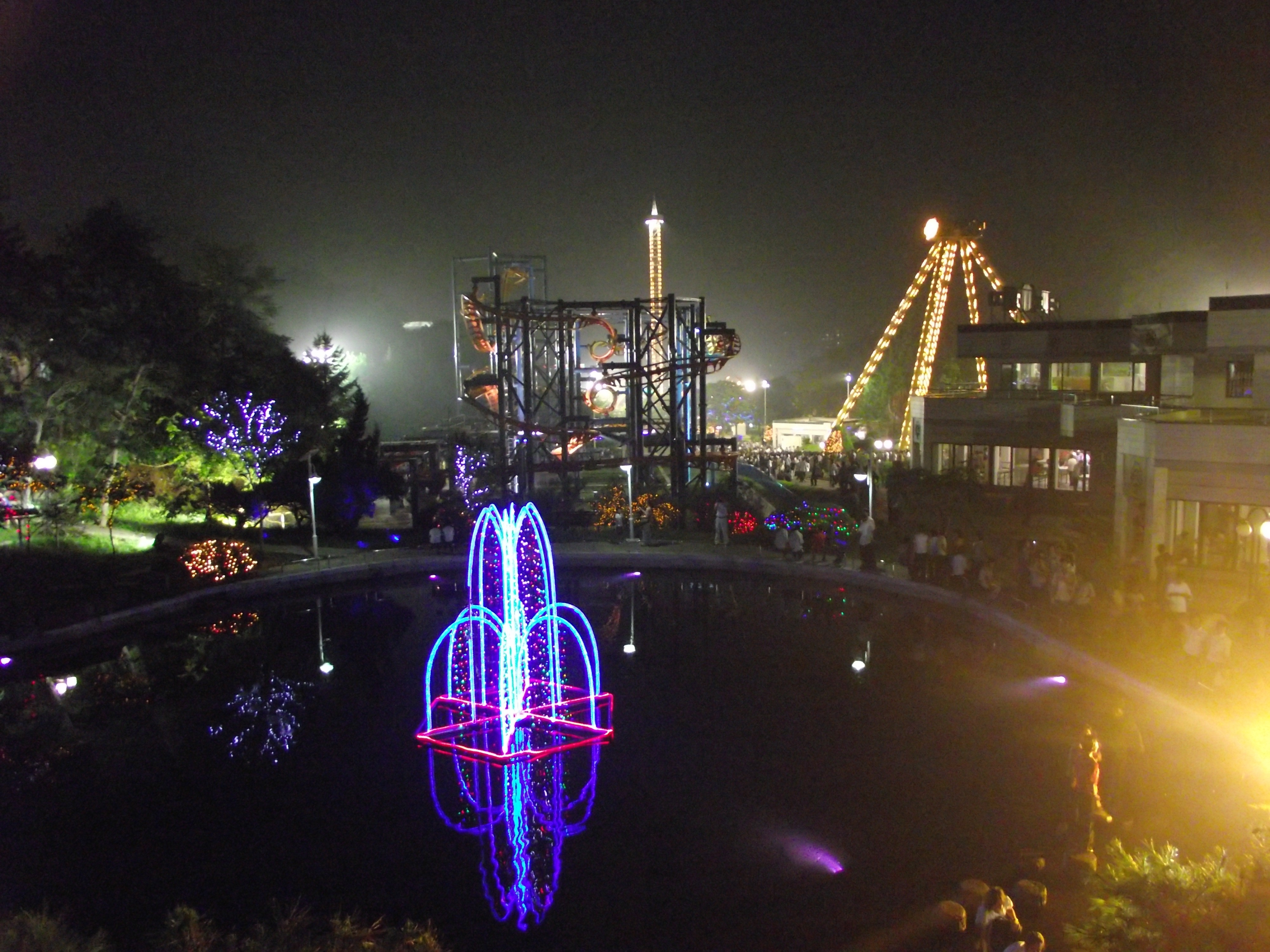 Kaeson Funfar in Pyongyang, North Korea (August 14, 2011)